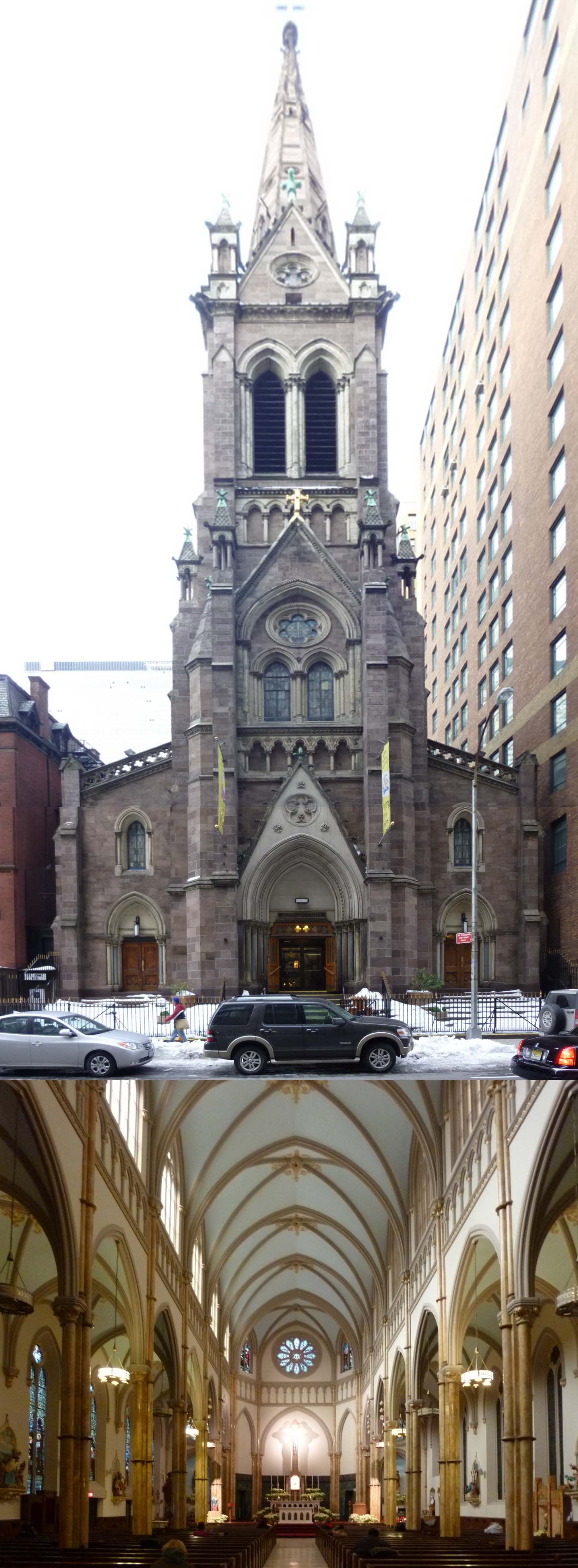 The Church of St. John the Baptist is a Roman Catholic parish church in the Roman Catholic Archdiocese of New York, located at 207 West 30th Street at Seventh Avenue, in Midtown Manhattan, New York City. It was established in 1840 and is staffed by the Capuchin Friars. The Gothic Revival church was built between 1871-1872 to the designs of Napoleon Le Brun.